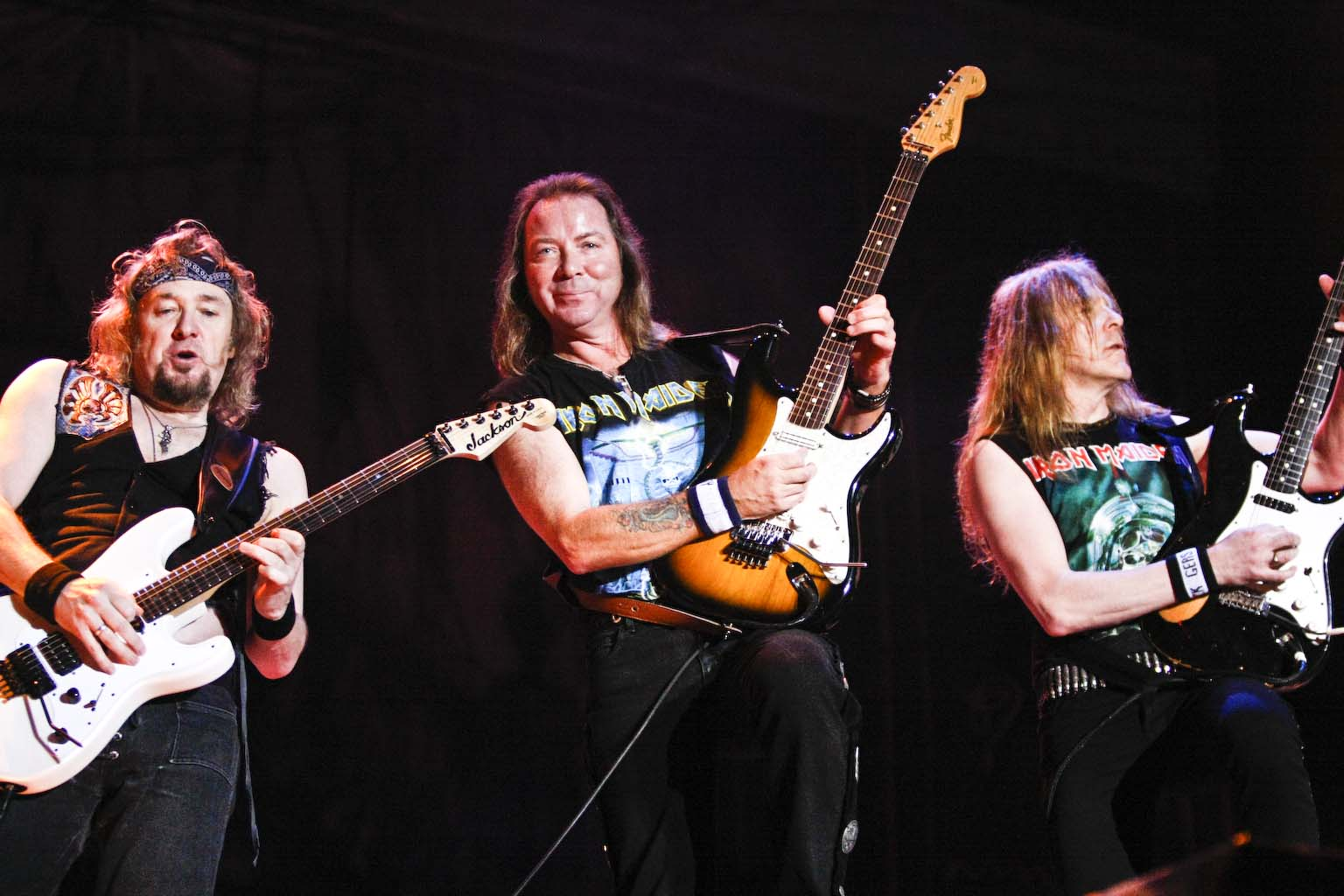 The Iron Maiden Guitars Full